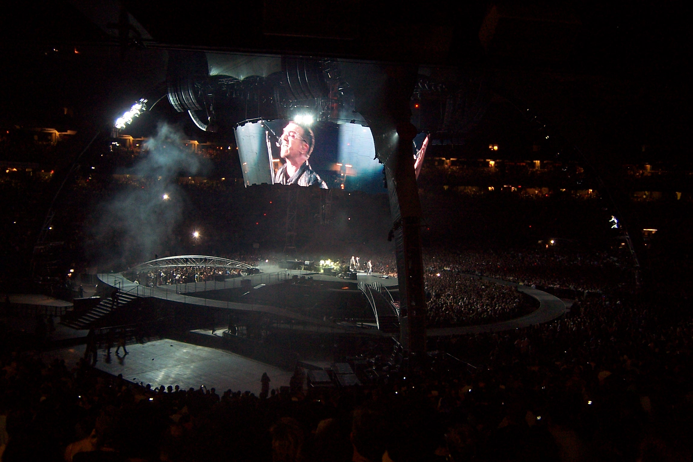 U2 performing "Get On Your Boots" at Giants Stadium in New Jersey as part of their U2 360 Tour